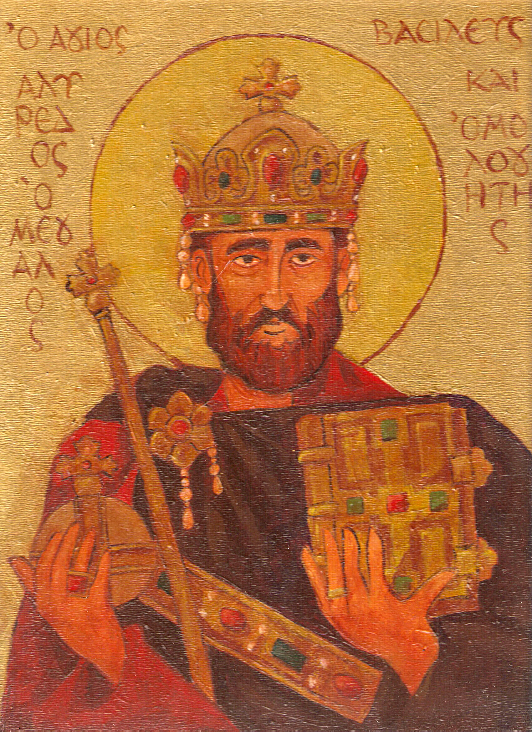 A Byzantine-style ikon of St. Alfred the Great, King of England, and Confessor.